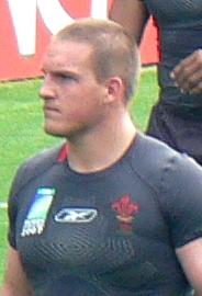 Gethin Jenkins, Welsh rugby player